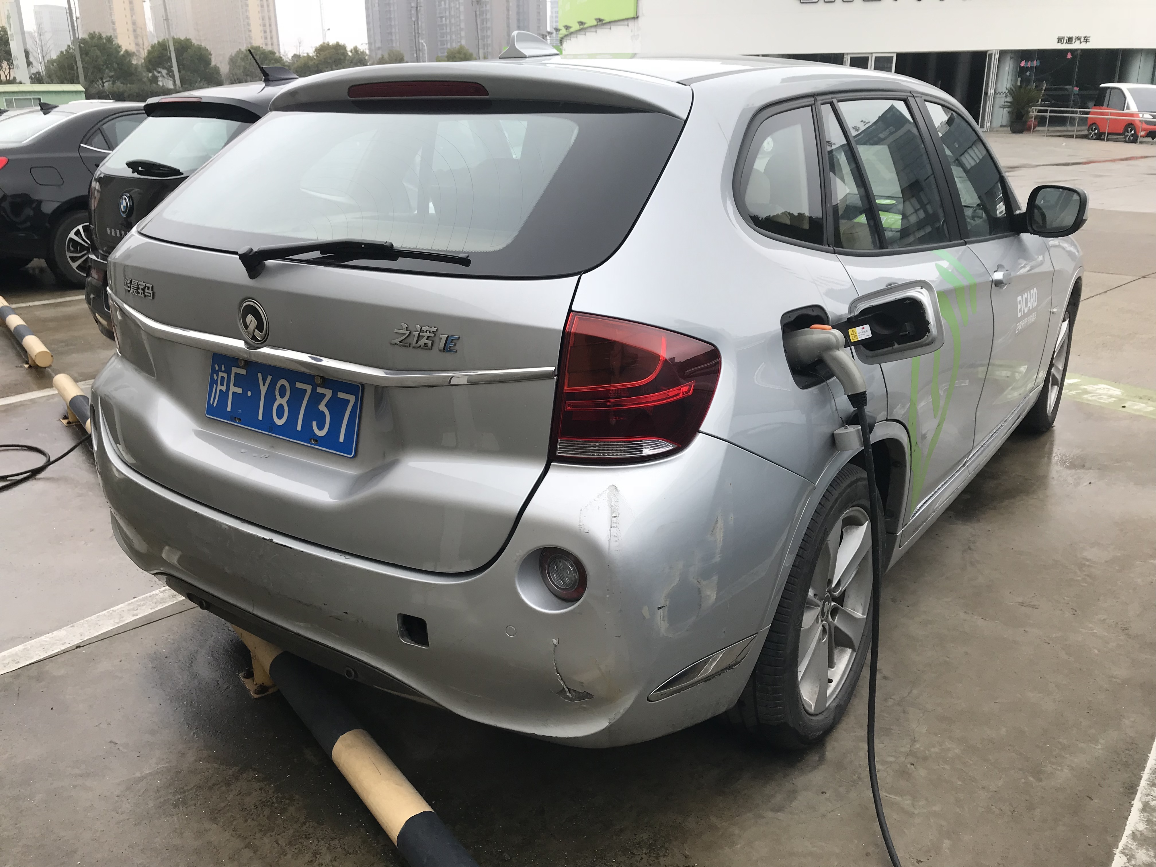 Zinoro 1E rear view.